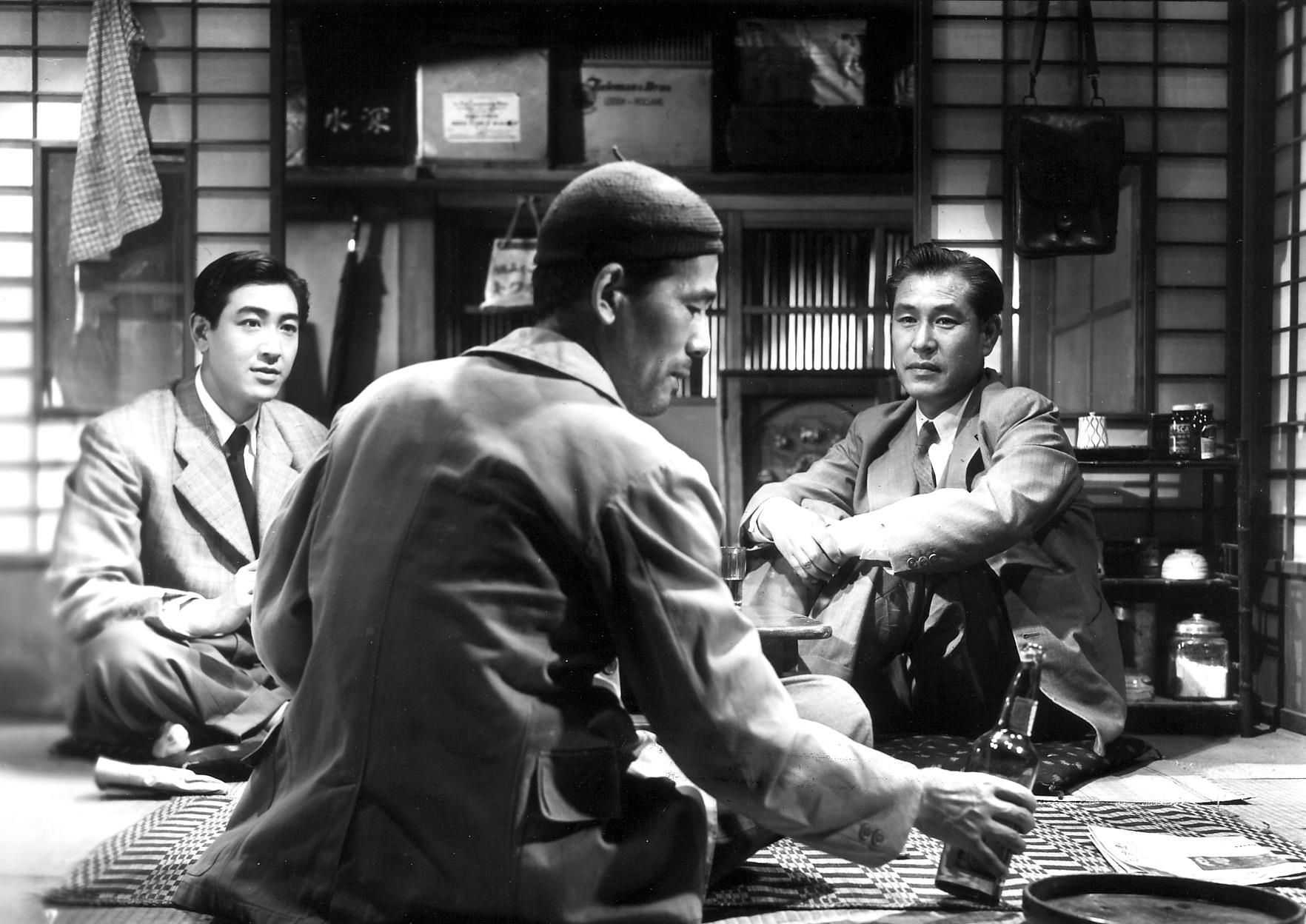 From left to right: Kōji Tsuruta, Chishū Ryū and Shin Saburi in Ochazuke no aji (お茶漬の味) directed by Yasujirō Ozu - 1952